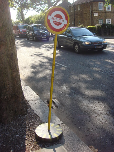 Temporary bus stop, Saint Marks Road. Due to these 1018723 preventing buses from using their normal stop, London Buses routes 7 and 316 are having to use this temporary stop.